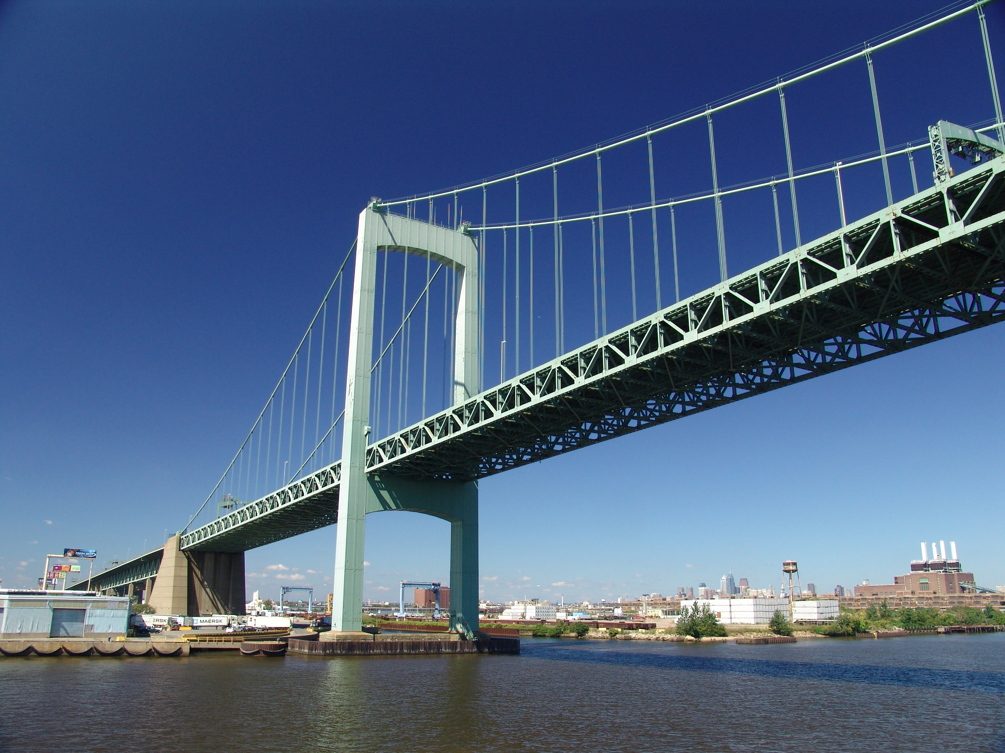 The Walt Whitman Bridge spans the Delaware River from Philadelphia to Gloucester City, New Jersey